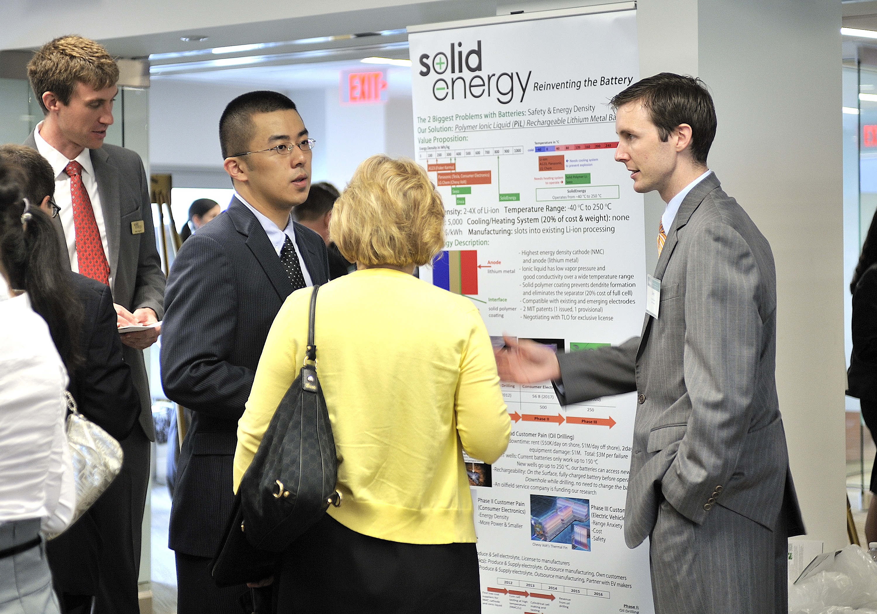 The National Clean Energy Business Plan Competition inspired nearly 300 university teams across the country to create new businesses to commercialize promising energy technologies developed at U.S. universities and the National Laboratories. | Department of Energy Photo by Ken Shipp